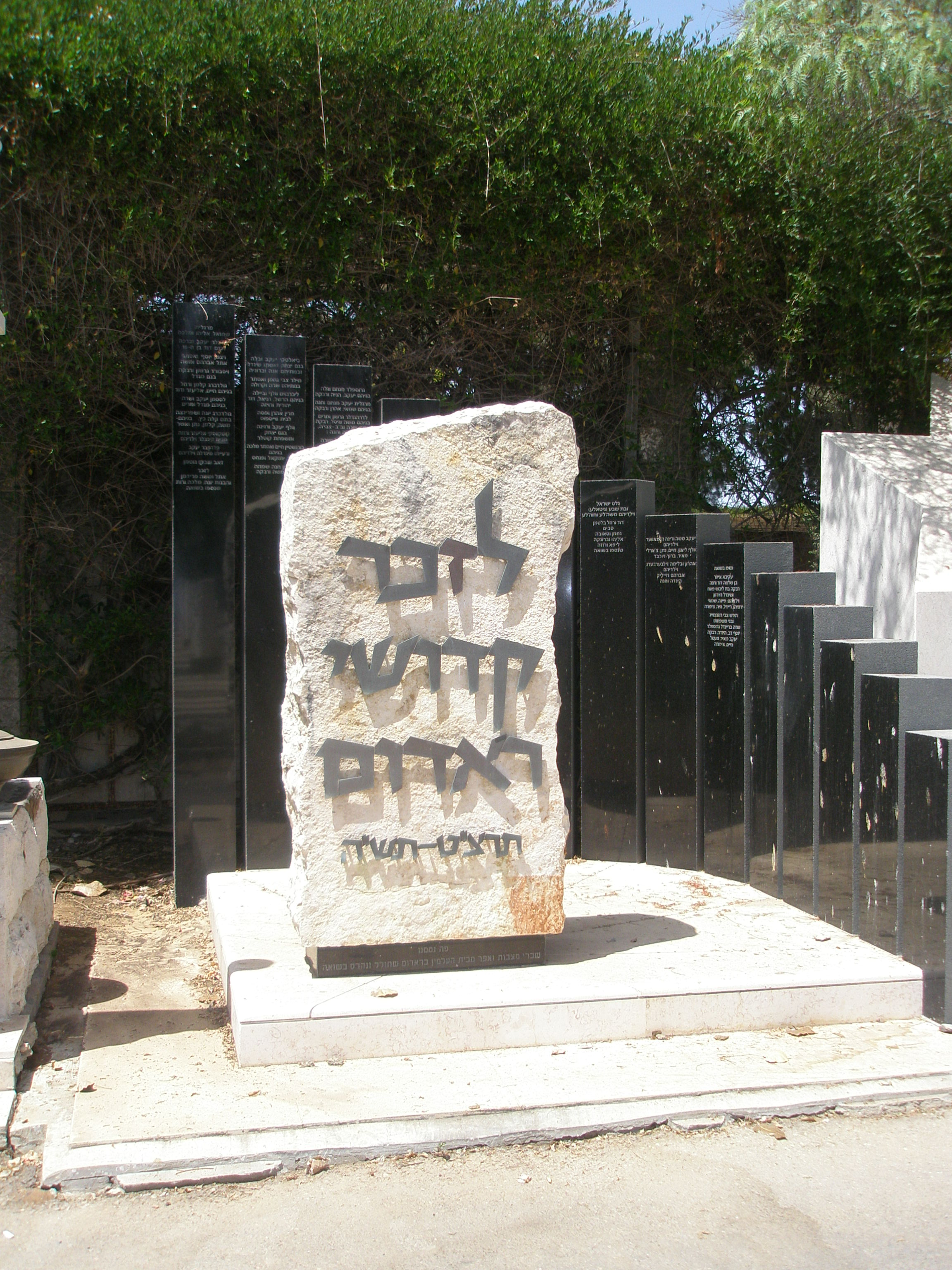 Radom memorial at Kiriat Shaul cemetery